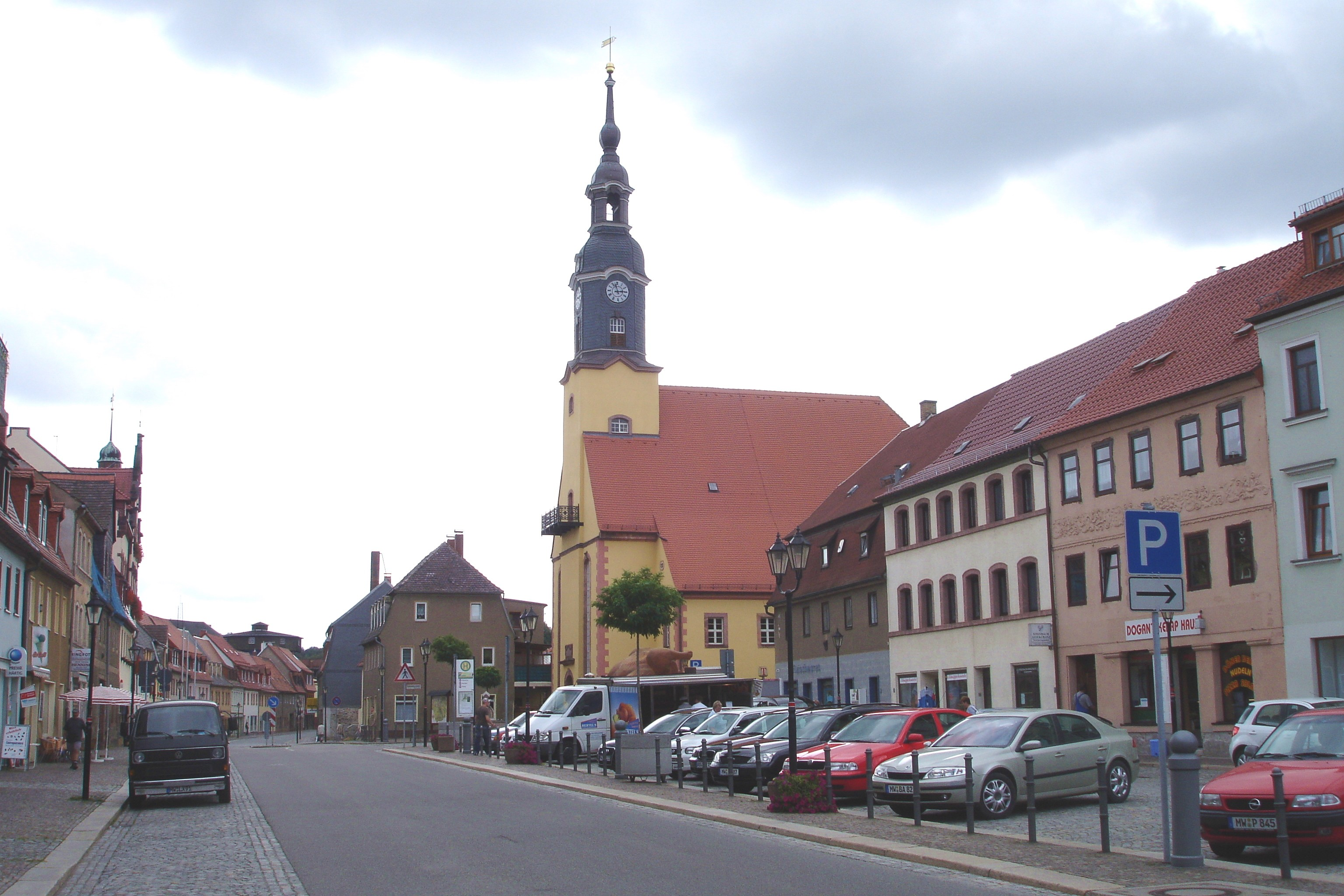 Market Place of Lunzenau with Church